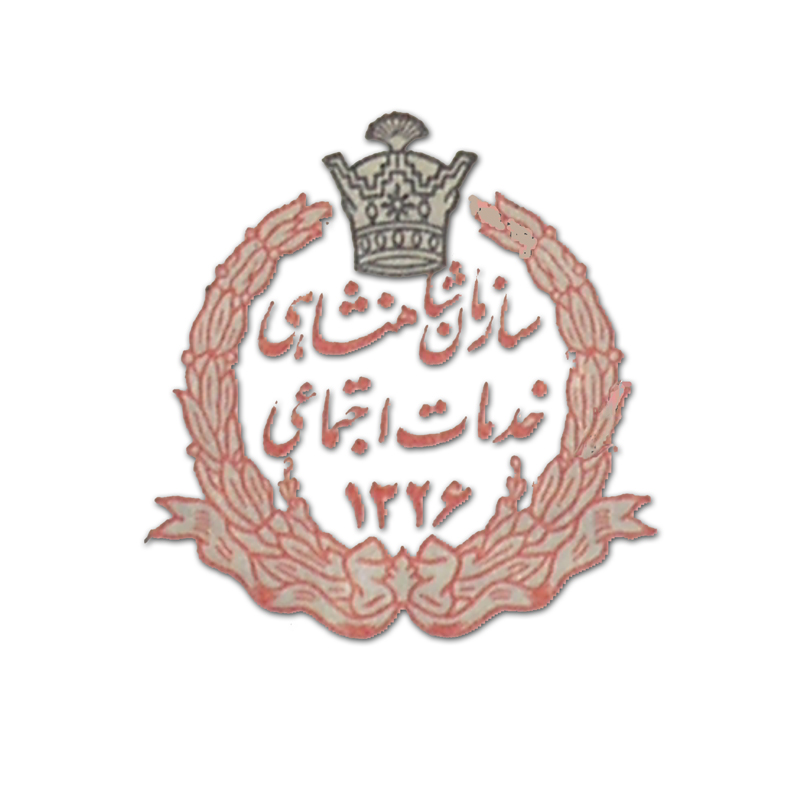 Royal Organization of social welfare - Pahlavi - Iran